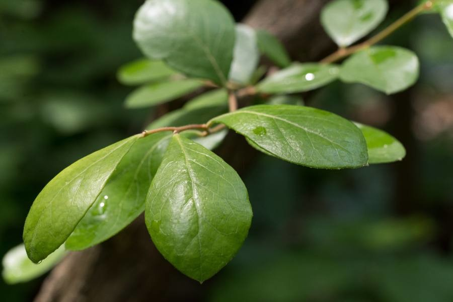 Vaccinium arboreum, Sparkleberry leaves